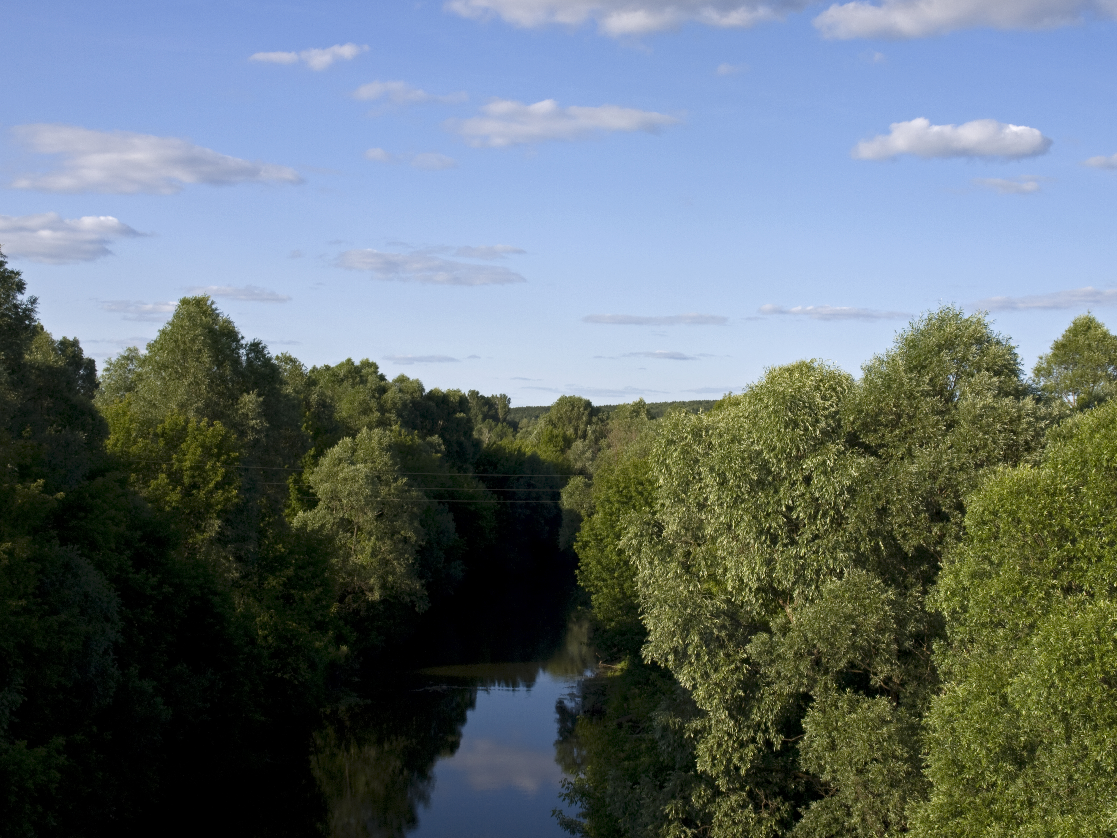 Toyma River, view from the bridge on M7 highway near Elabuga, direction North